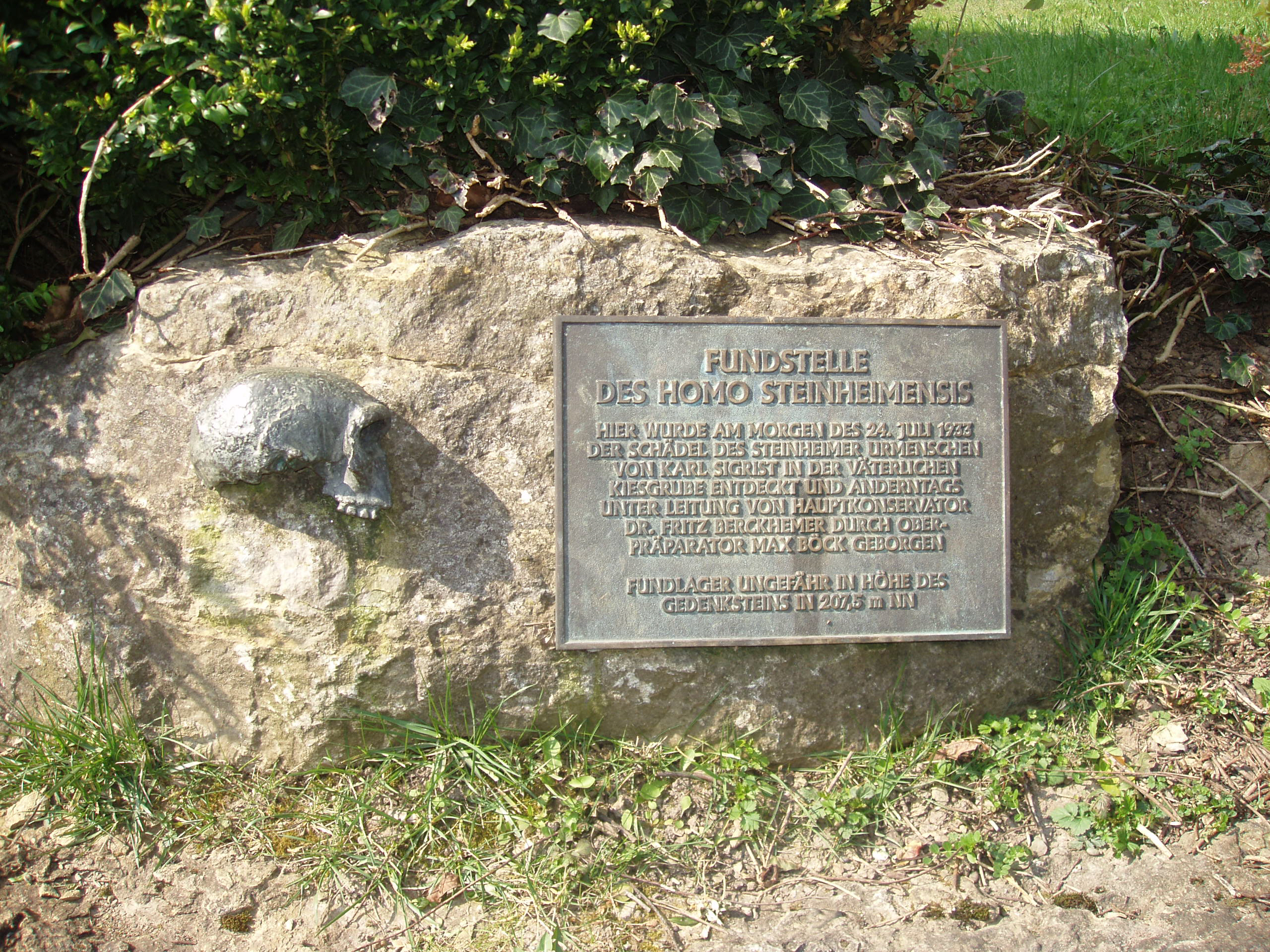 Memorial stone, placed where the 250.000 years old scull of Homo steinheimensis was found in 1933